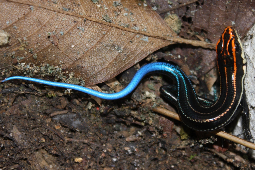 This fluorescent little beauty was a really pleasant surprise find, whilst I was sweeping leaves in our garden, near Ho Chun, Sai Kung. It stayed still just long enough for me to get a few shots before it dashed off under the shed.